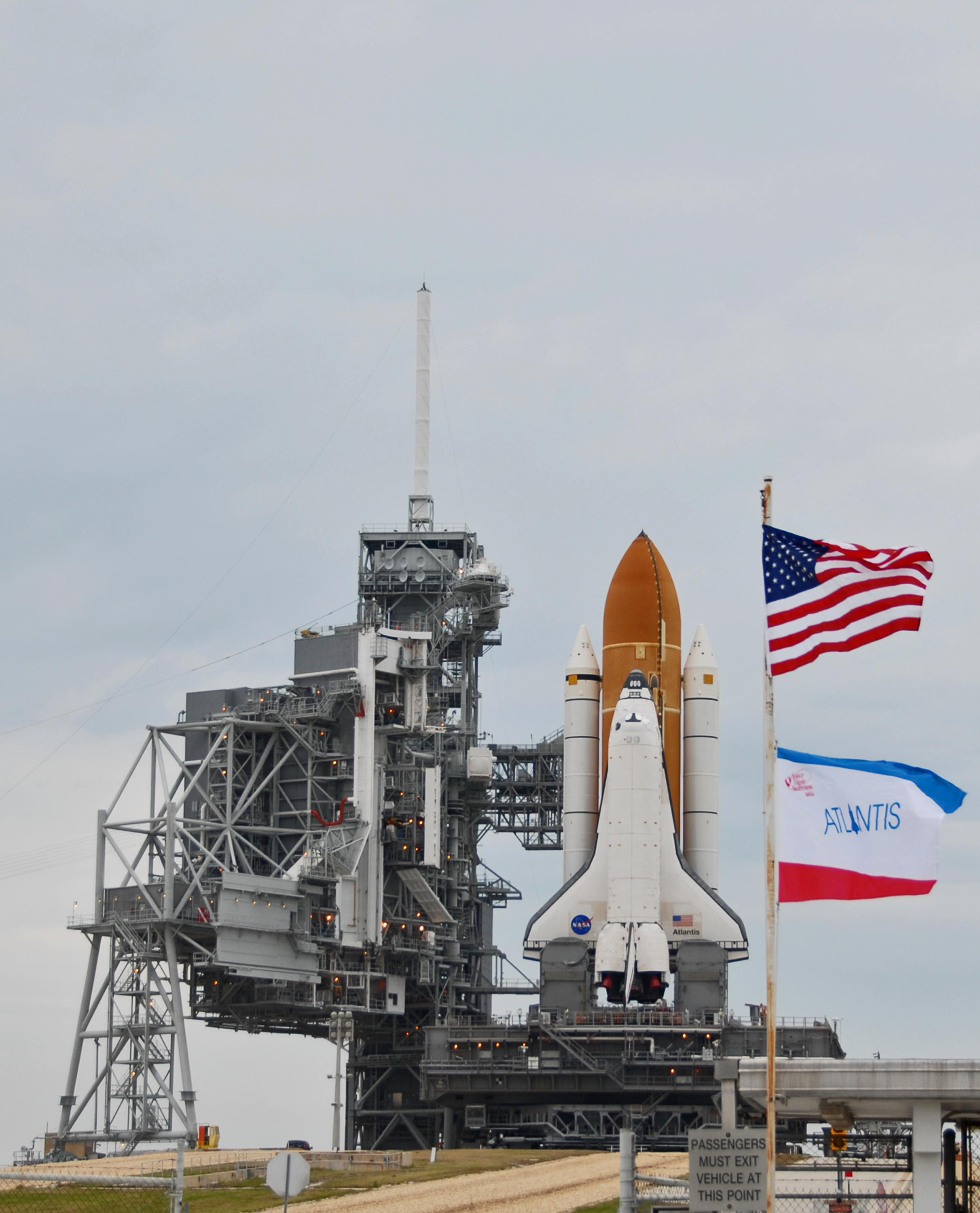 Flags are flying at the entrance to Launch Pad 39A, where Space Shuttle Atlantis has come to a stop 'hard down' at 3:09 p.m. The shuttle spent about six hours rolling out to Pad 39A after leaving the Vehicle Assembly Building at 8:19 a.m. EST.